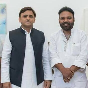 Manoj Kumar Paras is an Indian politician and a member of the 16th Legislative Assembly of Uttar Pradesh of India. He represents the Nagina constituency of Uttar Pradesh and is a member of the Samajwadi Party political party.